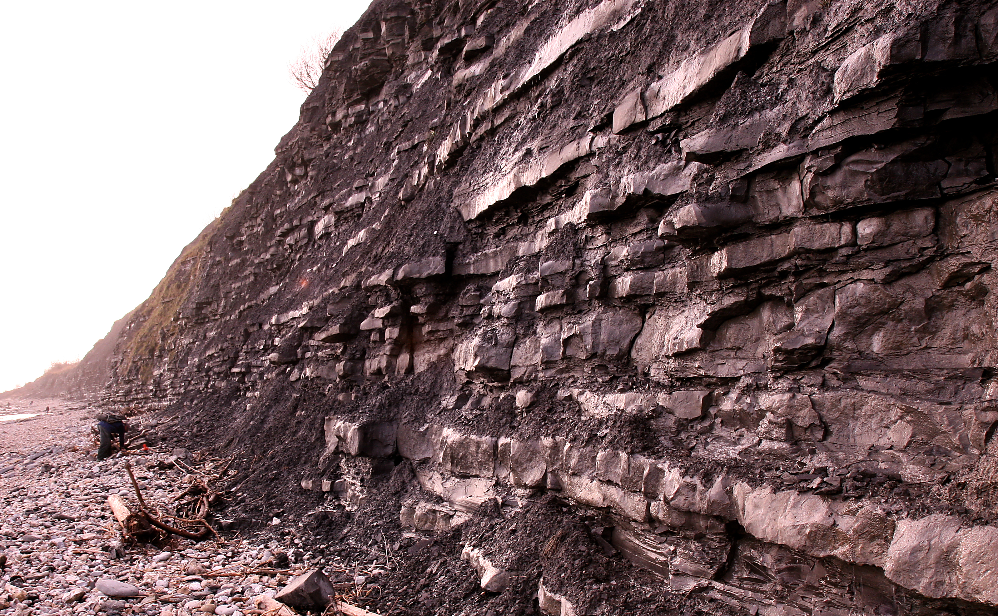 Sea cliff made up of an alternation of Lower Jurassic dark claystones and limestones of the Blue Lias Formation at Lyme Regis, Dorset, UK.